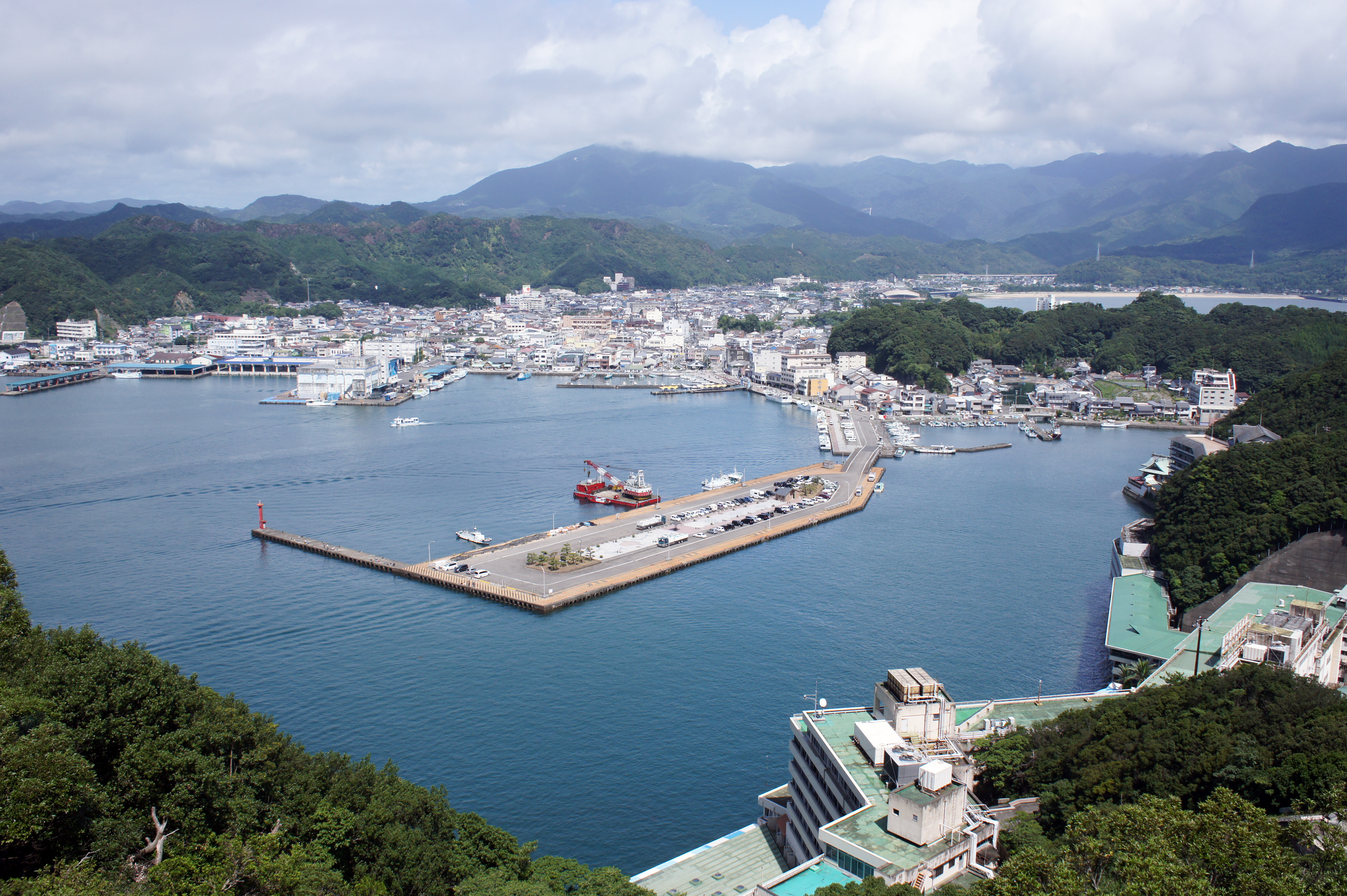 Katsuura Port in Nachikatsuura, Wakayama prefecture, Japan.